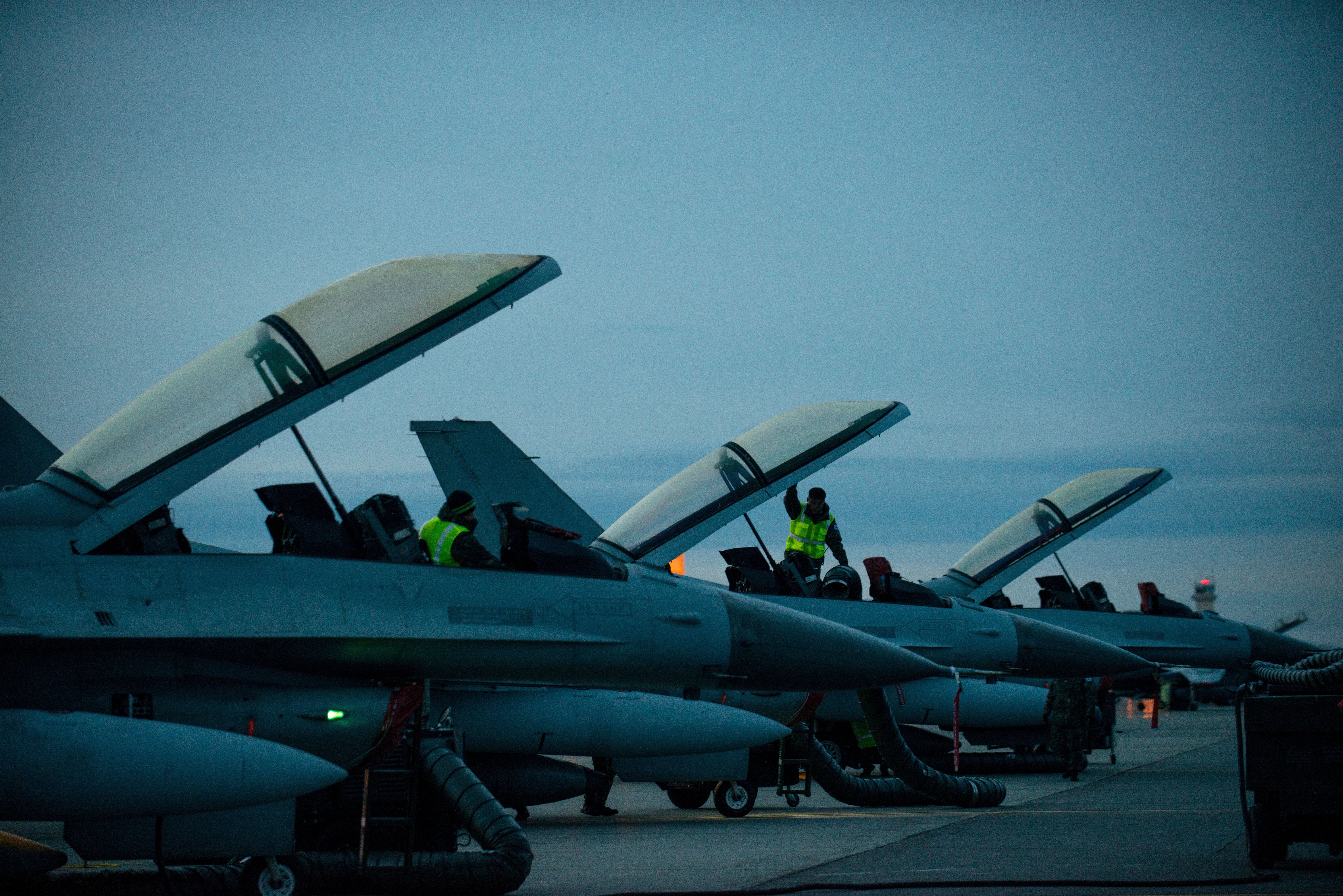 Republic of Korea airmen prepare F-16 Fighting Falcon fighter aircraft assigned to the Republic of Korea air force deployed to Eielson Air Force Base, Alaska, Oct. 3, 2014, during Red Flag-Alaska 15-1. RF-A is a series of Pacific Air Forces commander-directed field training exercises for U.S. and partner nation forces, providing combined offensive counter-air, interdiction, close air support and large force employment training in a simulated combat environment. (U.S. Air Force photo by Tech. Sgt. Joseph Swafford Jr./Released)